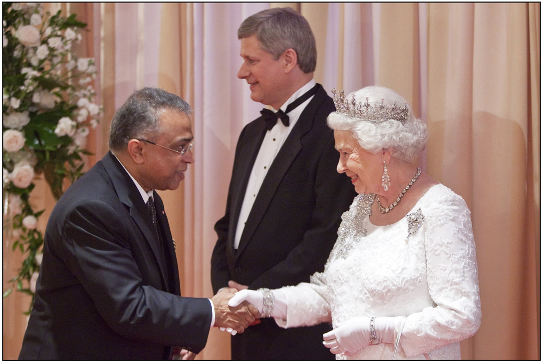 Dr. Aditya Jha with Queen Elizabeth